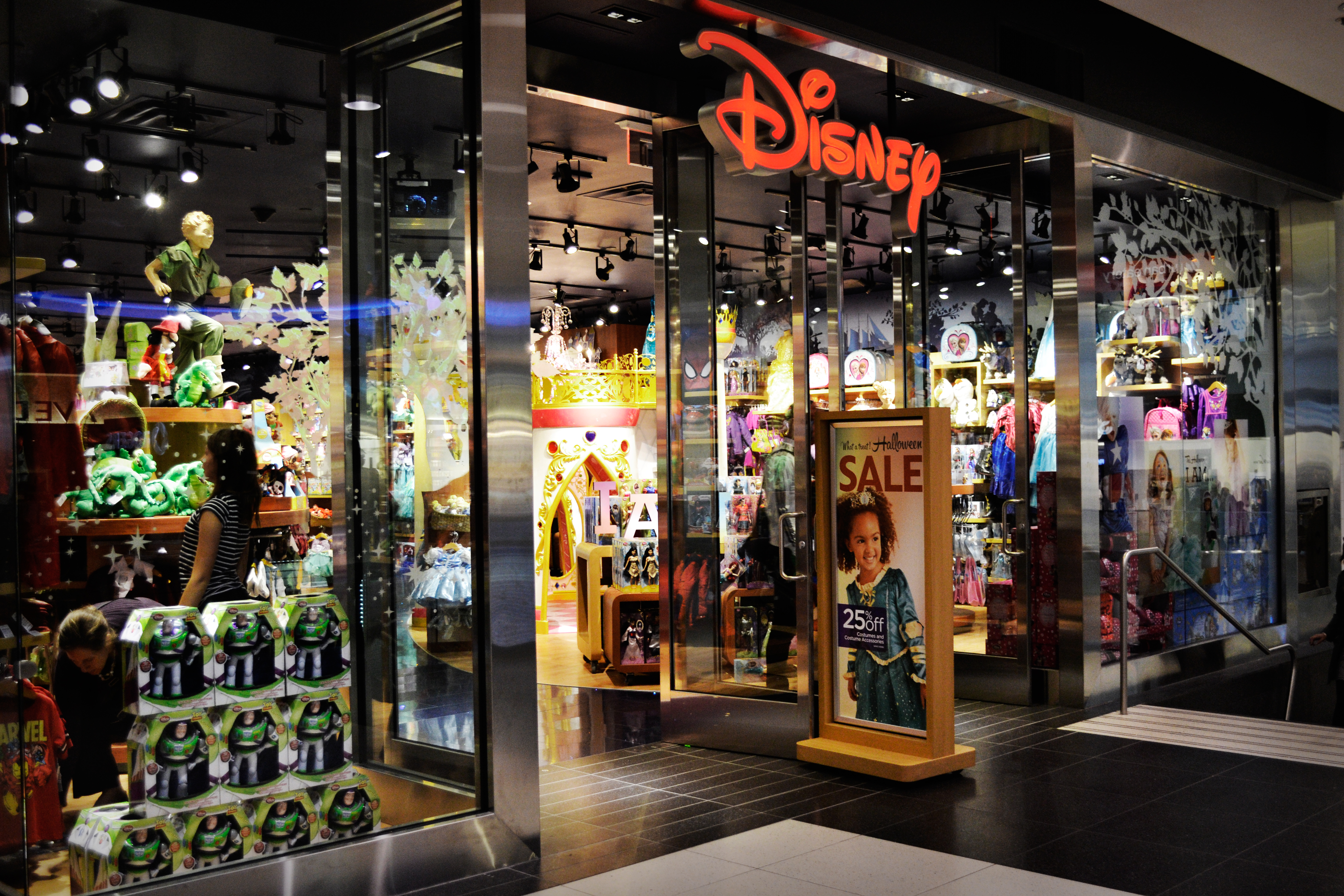 This is a shot of the Disney store in the Eaton Centre in Toronto, Canada. Please credit my site, if you use this image.